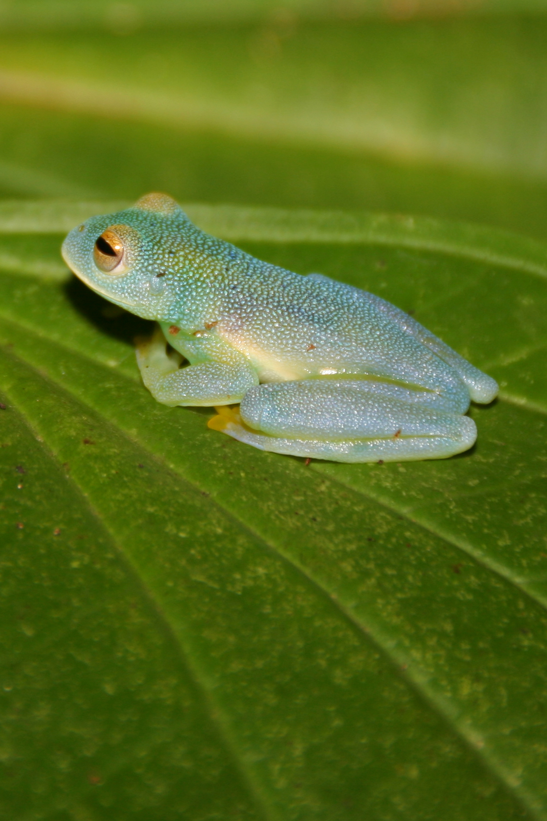 Photo of a glass frog, made in national park Manuel Antonio in Costa Rica.